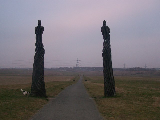 Sculptures in Jeskyns Jeskyns is a newly created open space and woodland, managed by the Forestry Commission, it is over 360 acres or 147 Hectares. It has various features within it including these huge sculptures, which are on a footpath from Cobham to Gravesend.